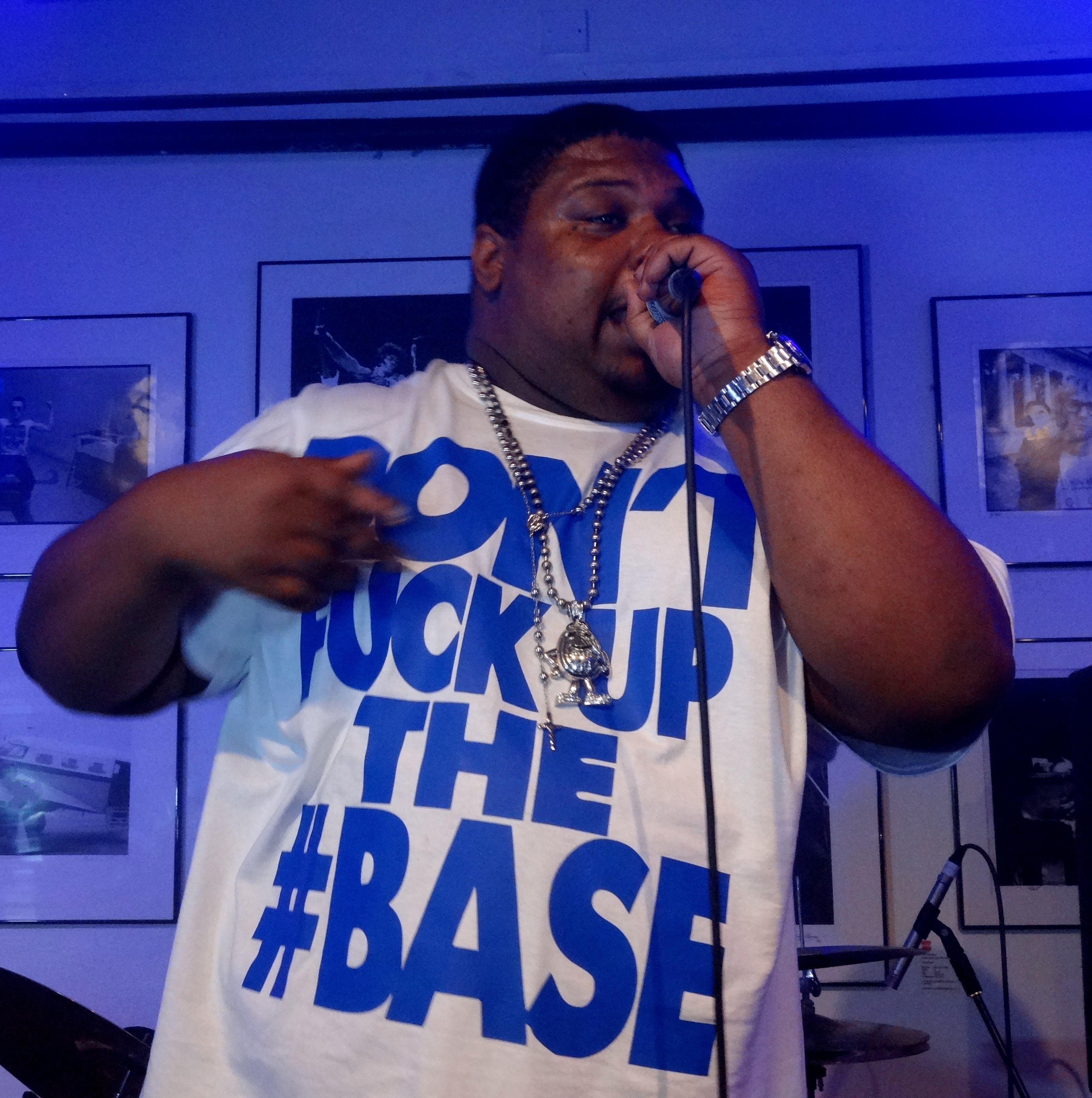 Big Narstie performing at Don't Fuck Up The Base EP Launch, Camden